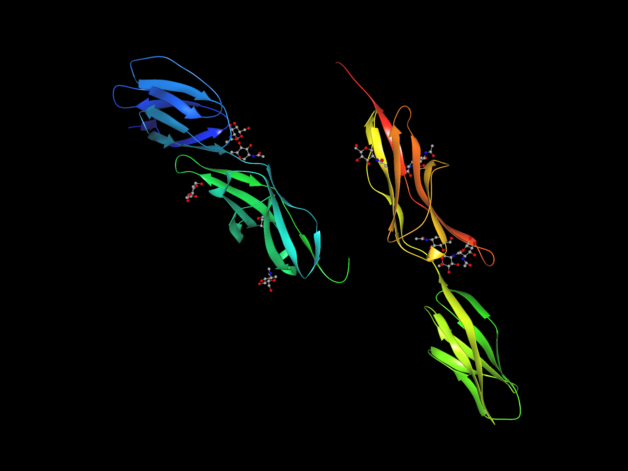 Structural formula of ICAM-1 - Inter-Cellular Adhesion Molecule 1 (1ic1 form)